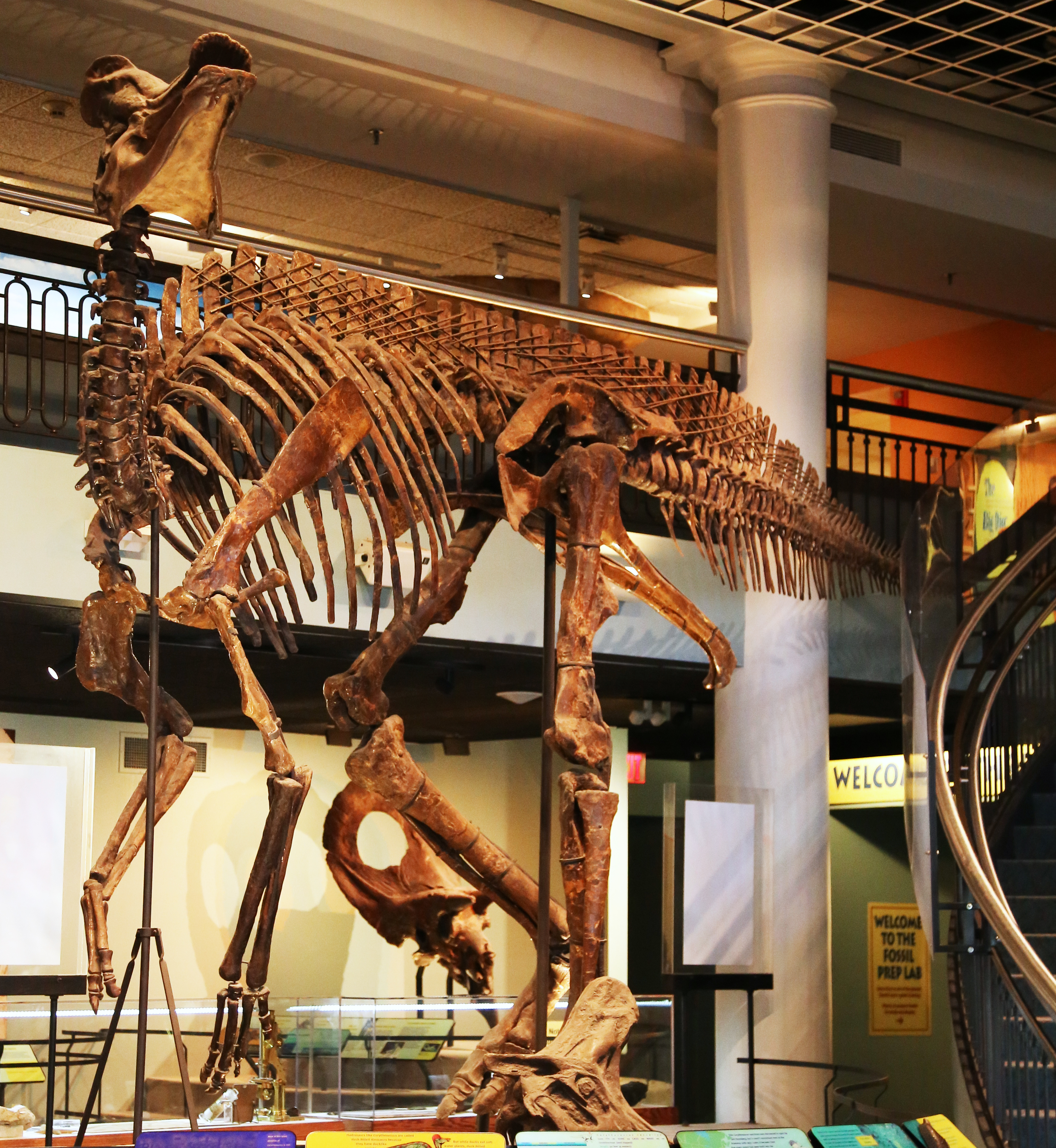 Academy of Natural Science of Drexel University Philadelphia PA September 11, 2013